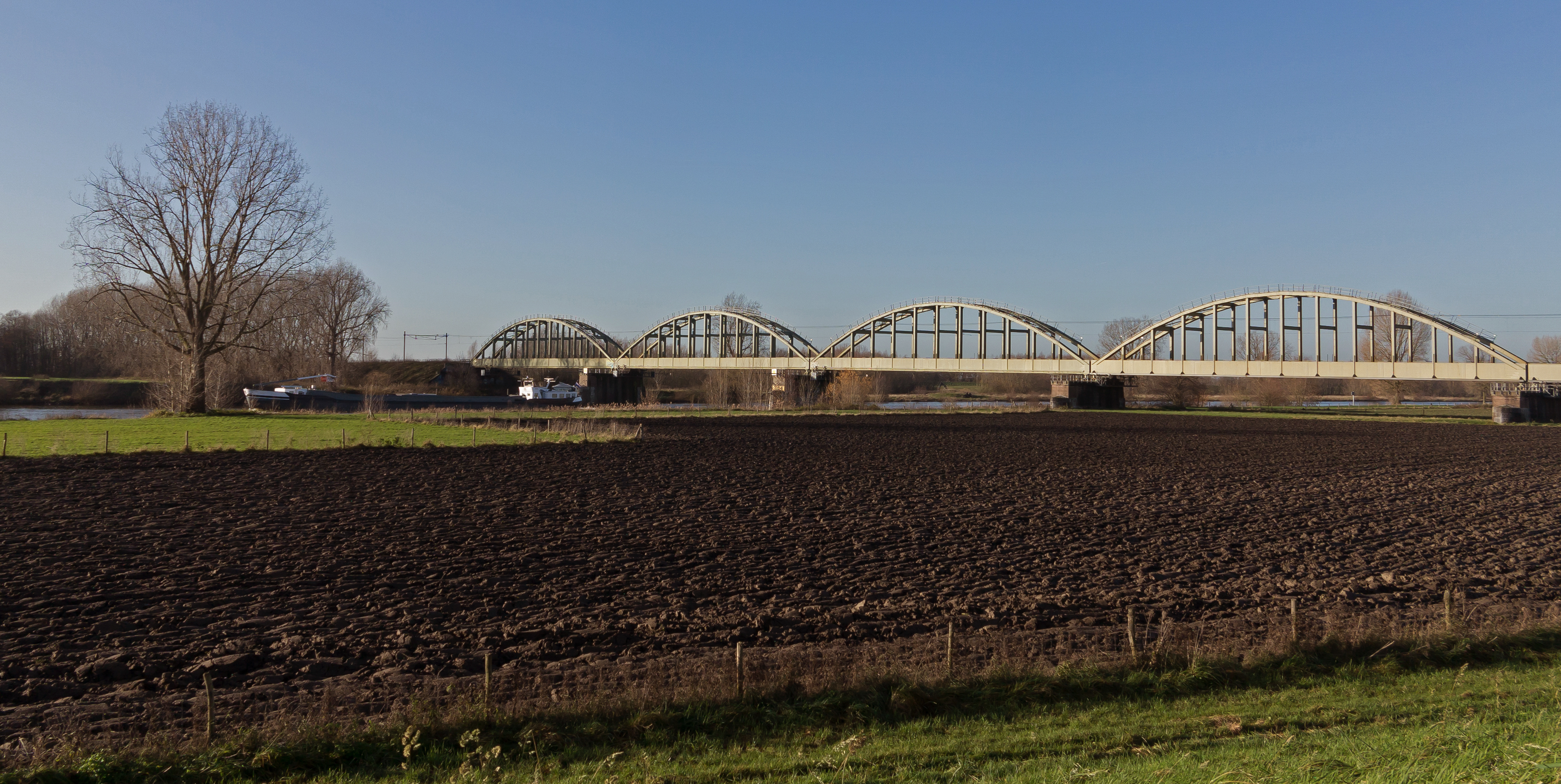 between tussen Niftrik and Balgoij, railway bridge across the river (de Maas)